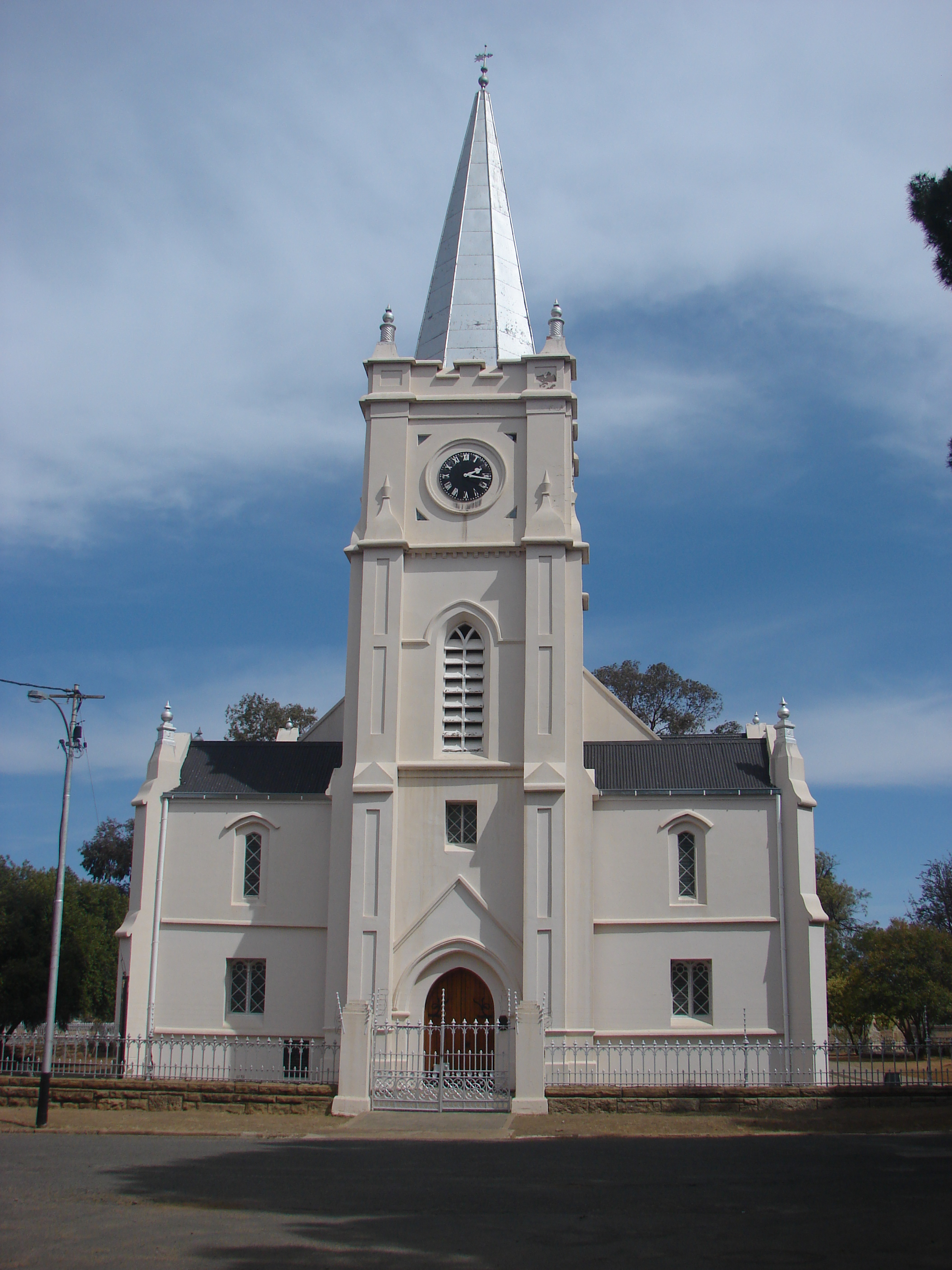 Nederduitse Gereformeerde Church, Grey Street, Bethulie This media shows a South African Protected Site with SAHRA file reference 9/2/301/0013.